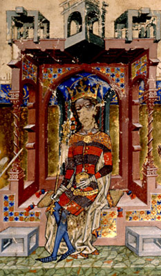 Chronicon Pictum